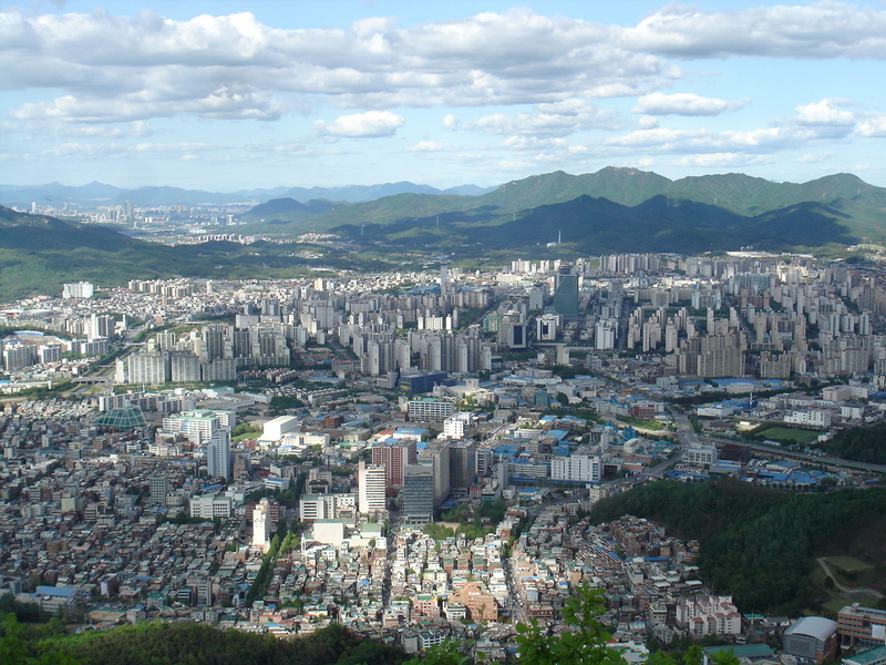 Anyang city from Suri mountain.